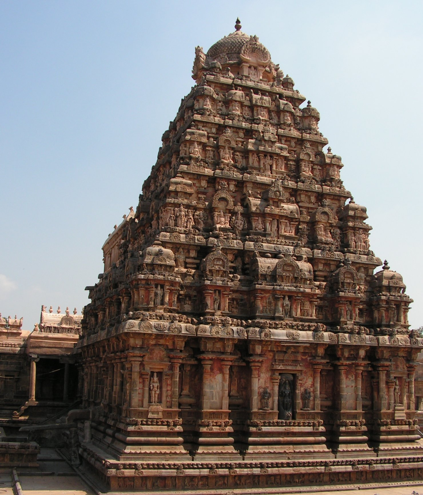 Airavateshwarar temple at Darasuram